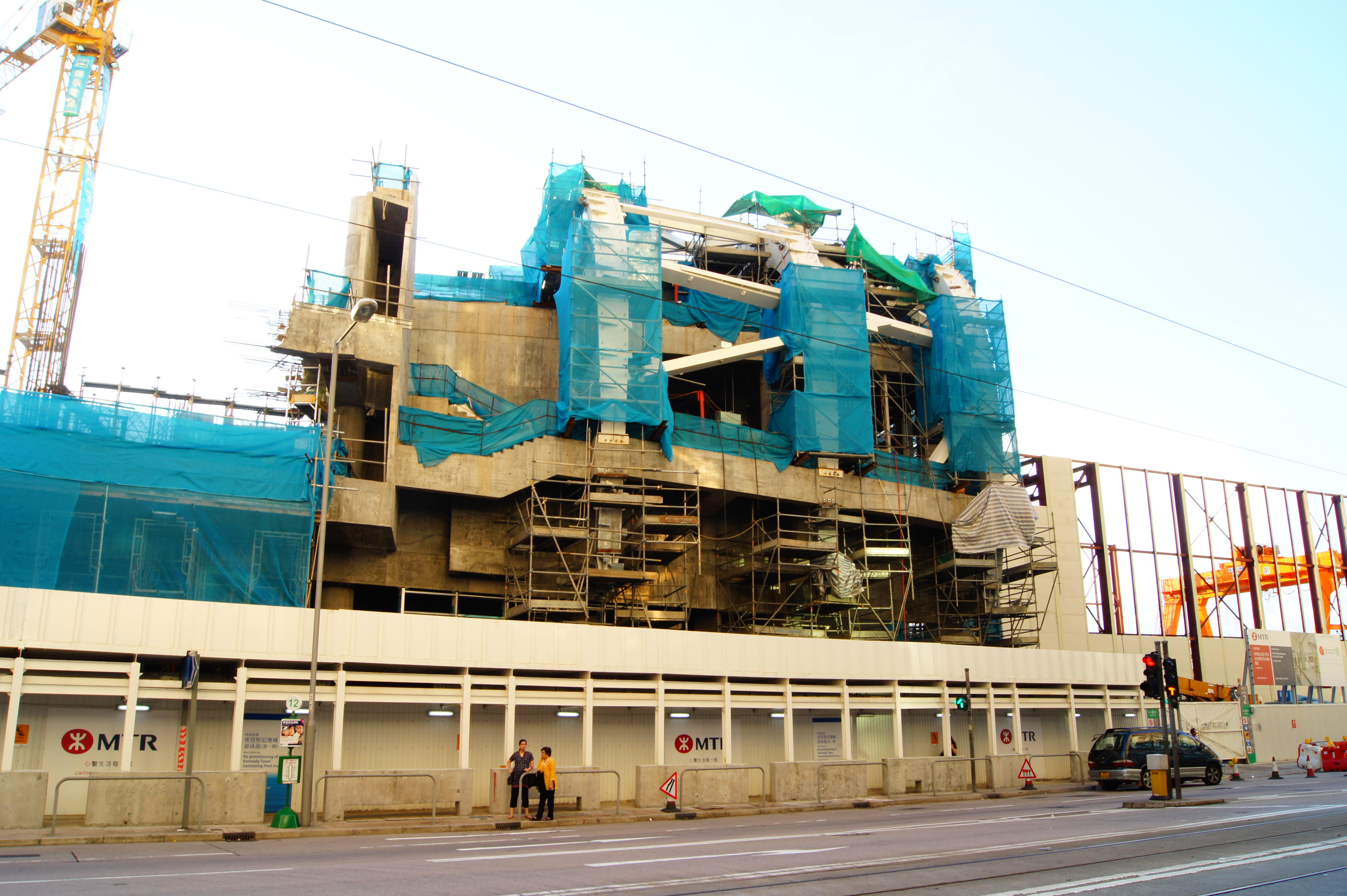 MTR West Island Line construction site (reprovisoning of Kennedy Town Swimming Pool)